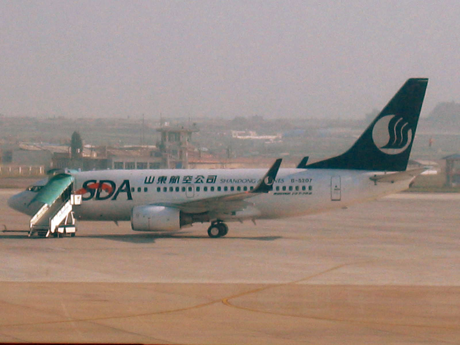 Shandong Airlines Boeing 737. Own work. Taken by User:Adz at Kunming Airport on 9 November 2006.